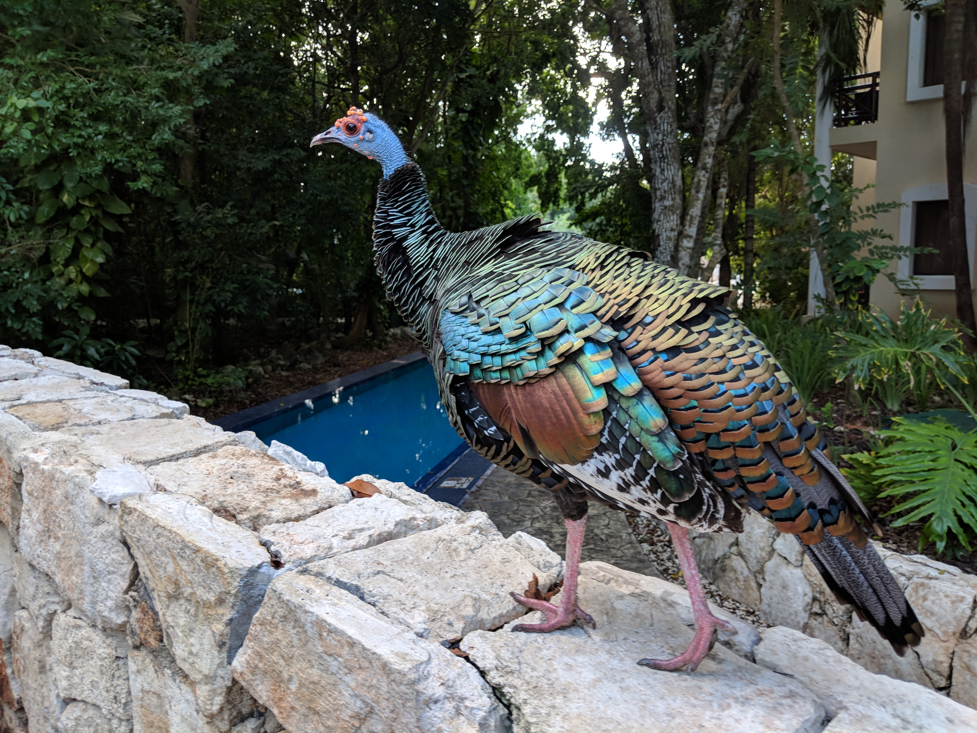 An ocellated turkey, (Meleagris ocellata) walking in a Yucatan resort. Taken December 2019.